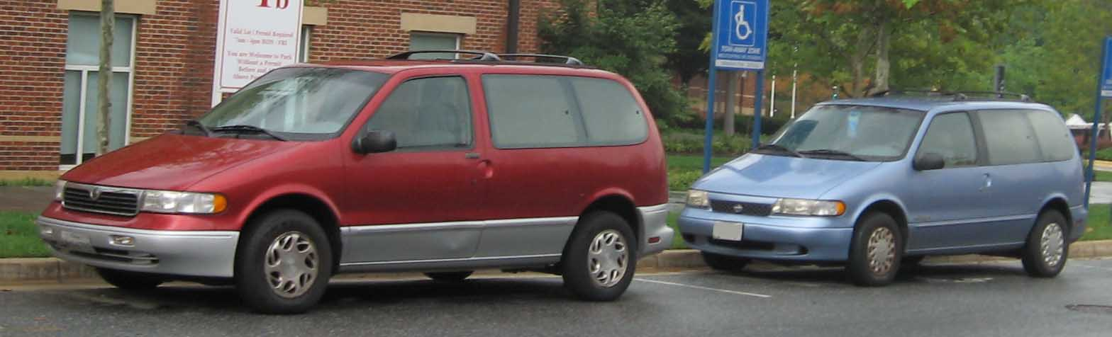 1996-1998 Mercury Villager and Nissan Quest photographed in College Park, Maryland, USA.